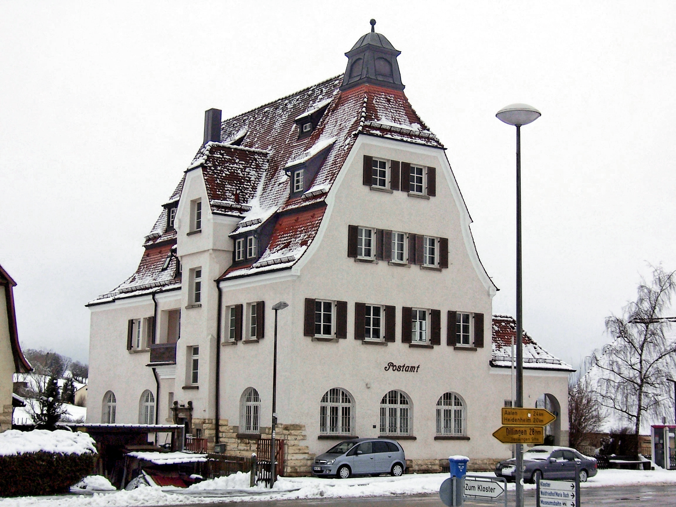 Historic Post Office Neresheim